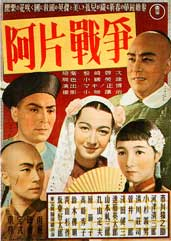 Movie poster for 1943 Japanese movie (阿片戦争 Ahen senso) aka The Opium War.